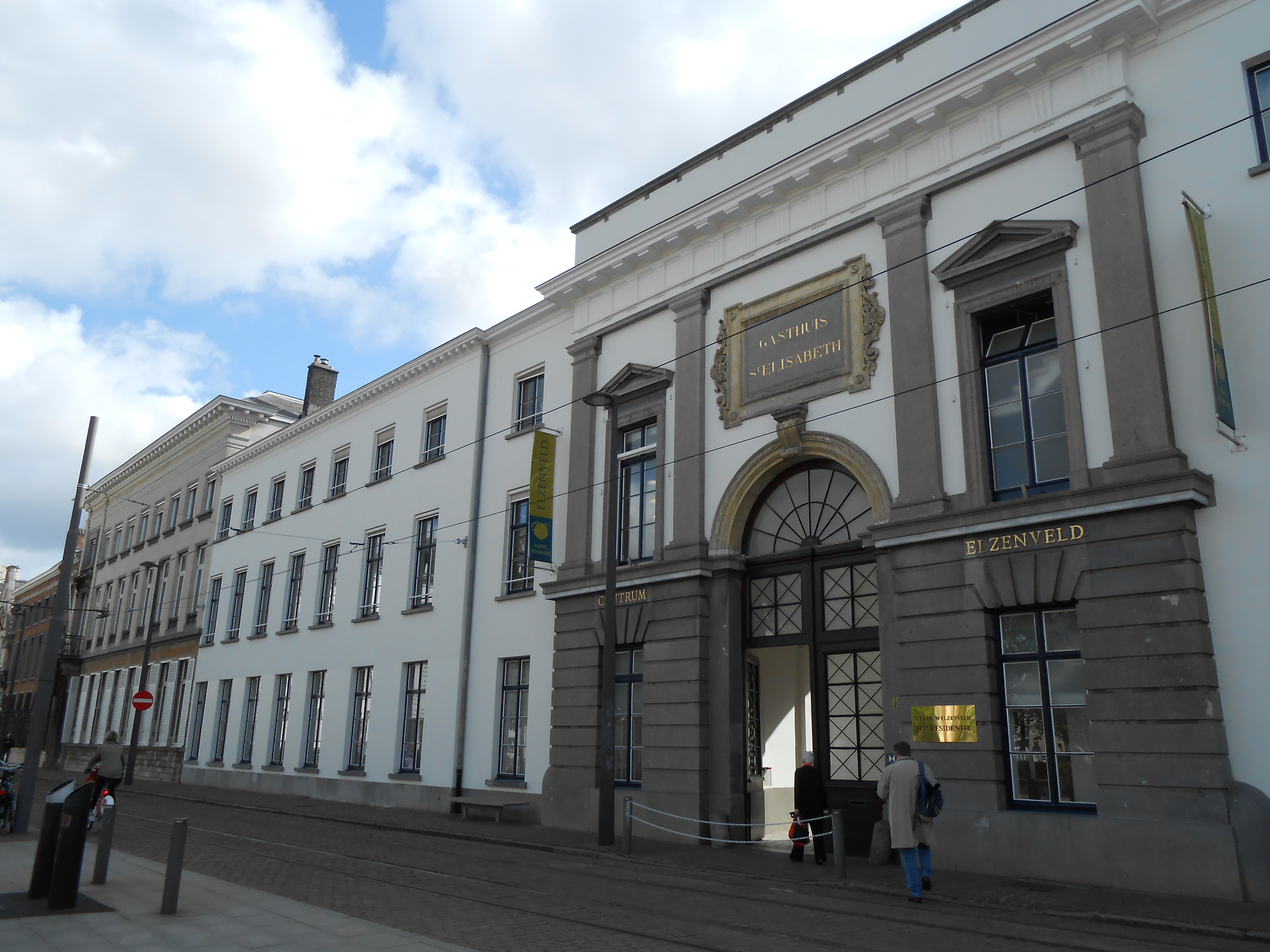 Former hospital St Elisabeth, now congress center.